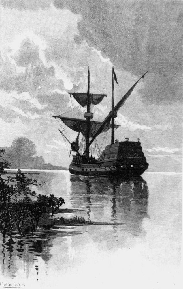 Duyfhen (ship) The Duyfhen in the Gulf of Carpentaria.